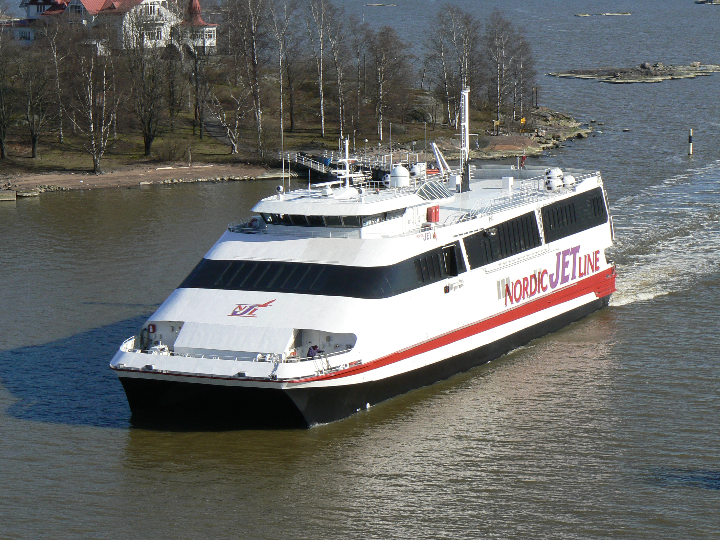 The HSC Nordic Jet approaching the port of Helsinki in April, 2008.